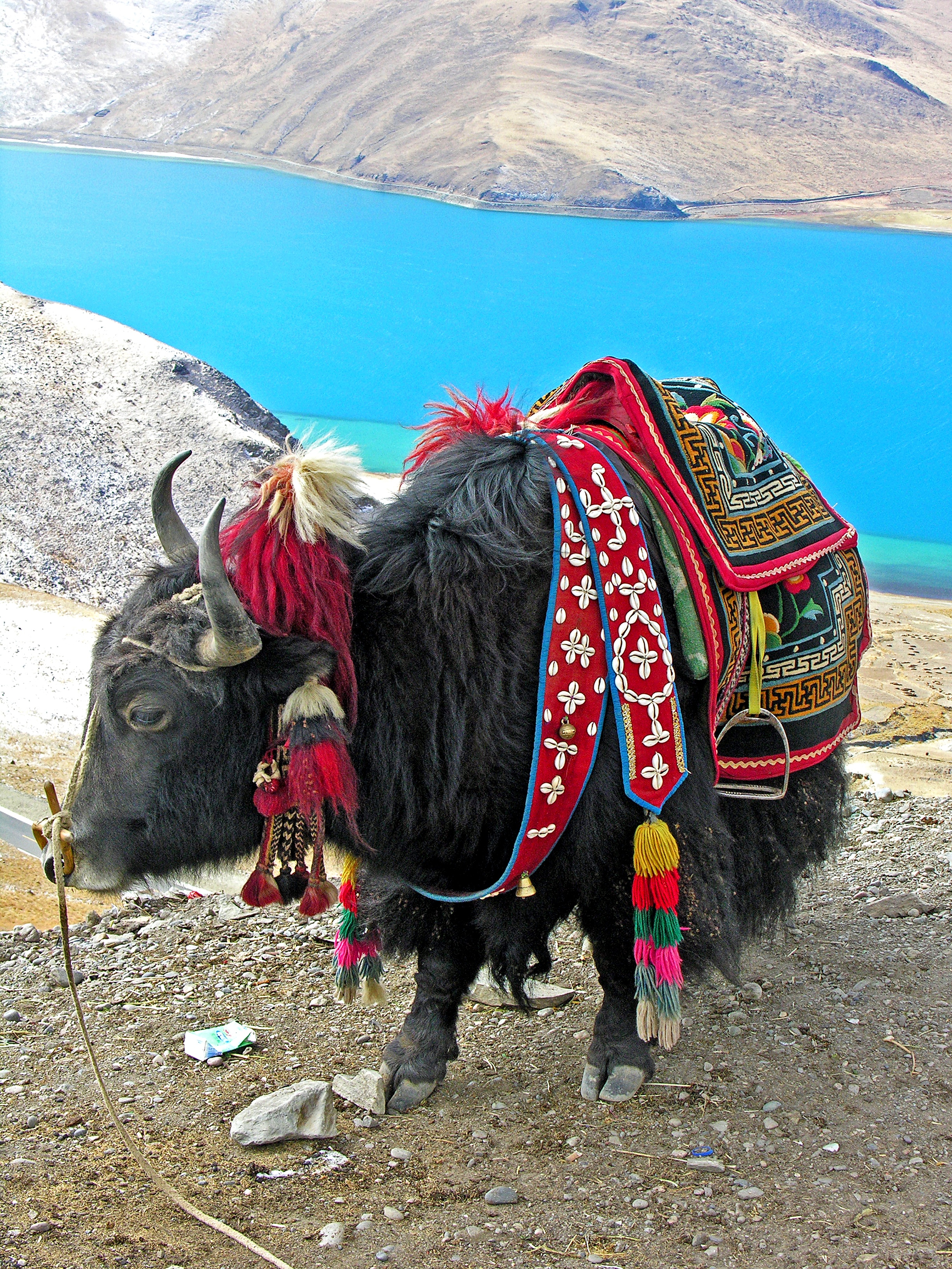 This yak is at the sacred Yundrok Yumtso Lake, Tibet, approx. 15,000 feet high and it was cold. The yak is a long-haired animal found throughout the Himalayan region of south Central Asia, the Tibetan Plateau and as far north as Mongolia and Russia.